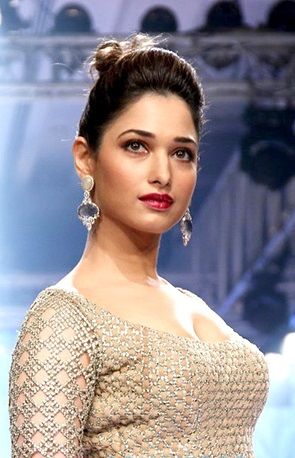 Tamannaah Bhatia at Lakme Fashion Week 2015